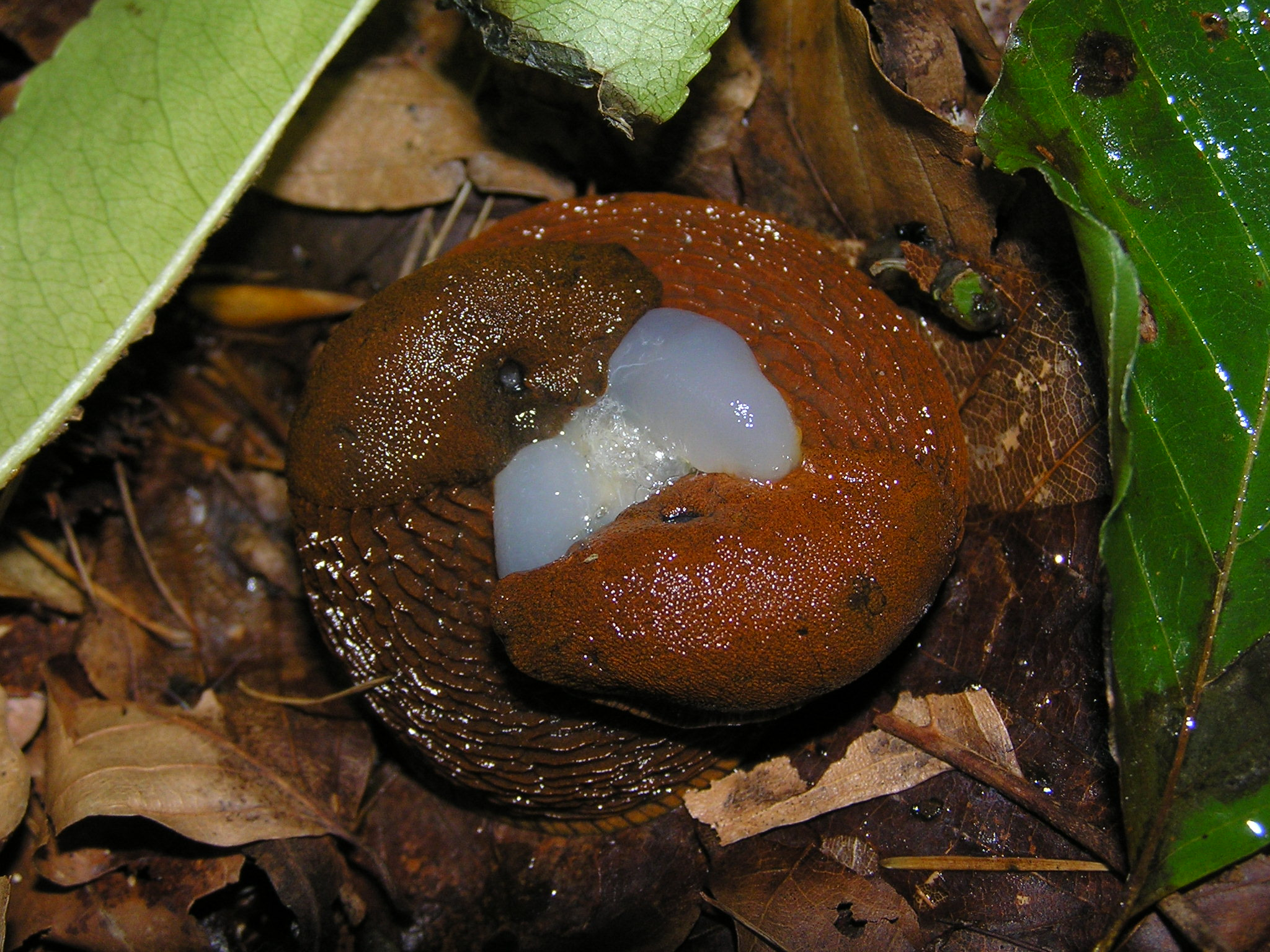 two copulating slugs (most probably Arion vulgaris, the atrium is relatively small)